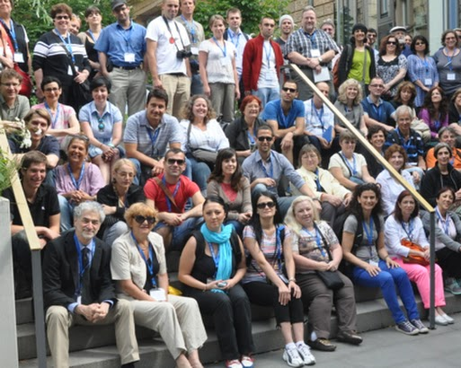 Participants of the Centropa Summer Academy 2012